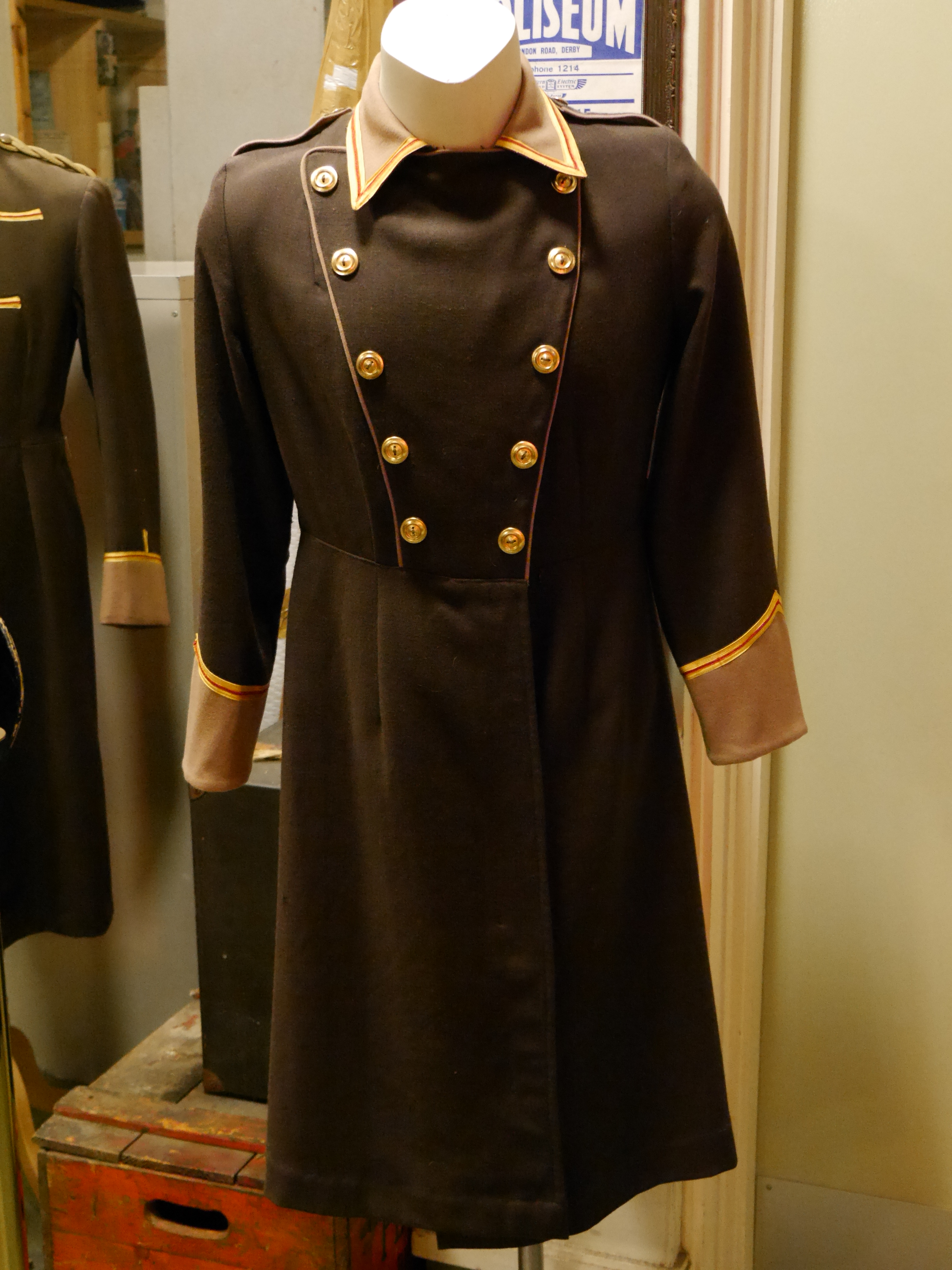 Cinema Museum, London object